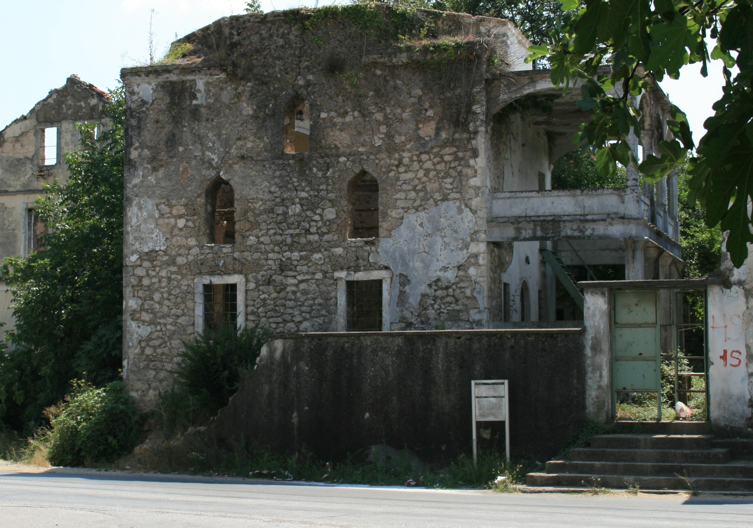 Destroyed Mosque, Vitina (Ljubuški) in August 2008